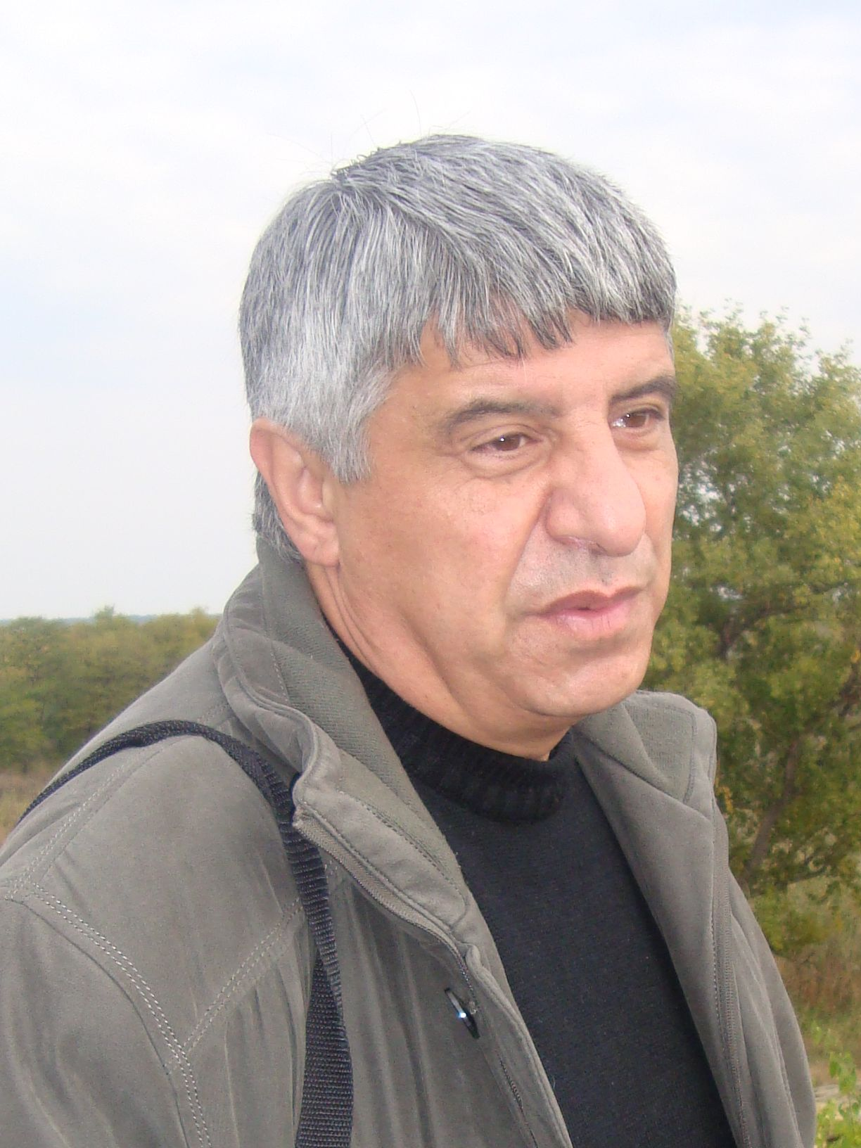 Pavlov Plamen